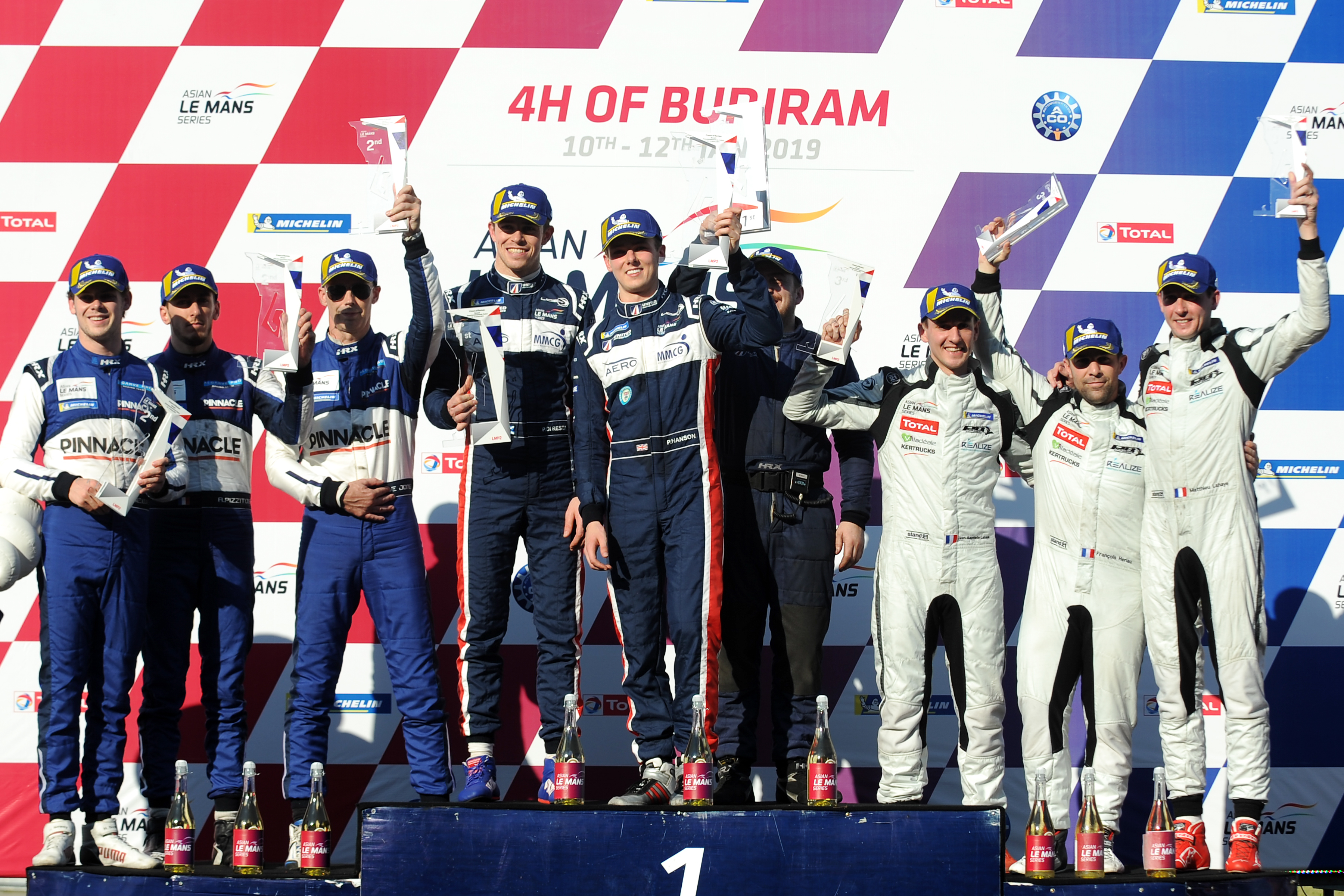 2019 4 Hours of Buriram - Asian Le Mans Seris - Podium